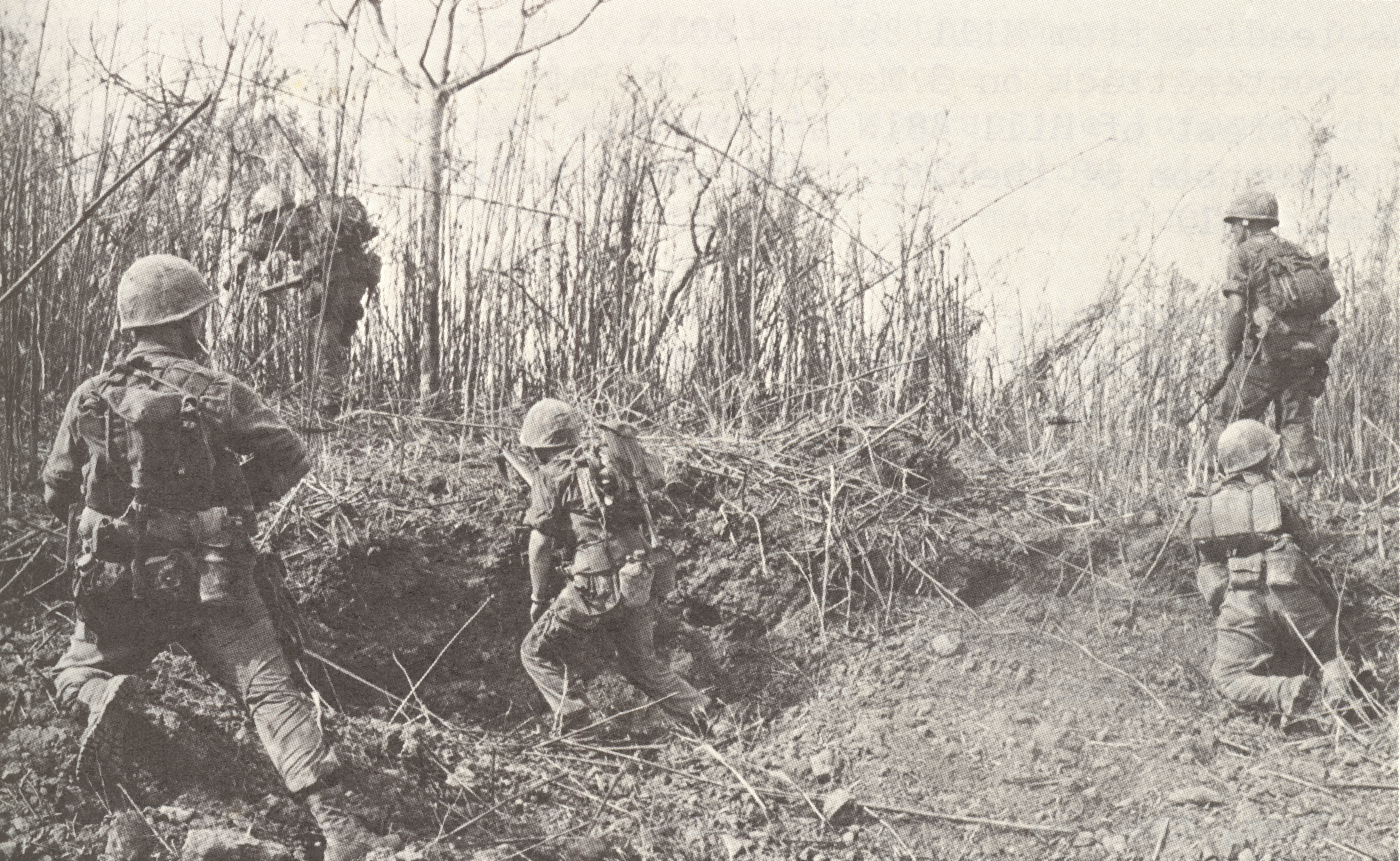 U.S. Marines of Company G, 2d Battalion, 3d Marines inch their way toward the summit of Hill 881N during the Hill fights of The Battle for Khe Sanh.